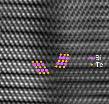 High-resolution cross-sectional HAADF-STEM image of the 60° twin boundary along the [210] zone axis of bismuth telluride: inversed Fourier-filtered image (scale bar is 5 nm). For clarity, the Bi atoms are depicted as purple circles and Te atoms are orange in colour. The atomic structure is mirrored relative to the vertical domain boundary.